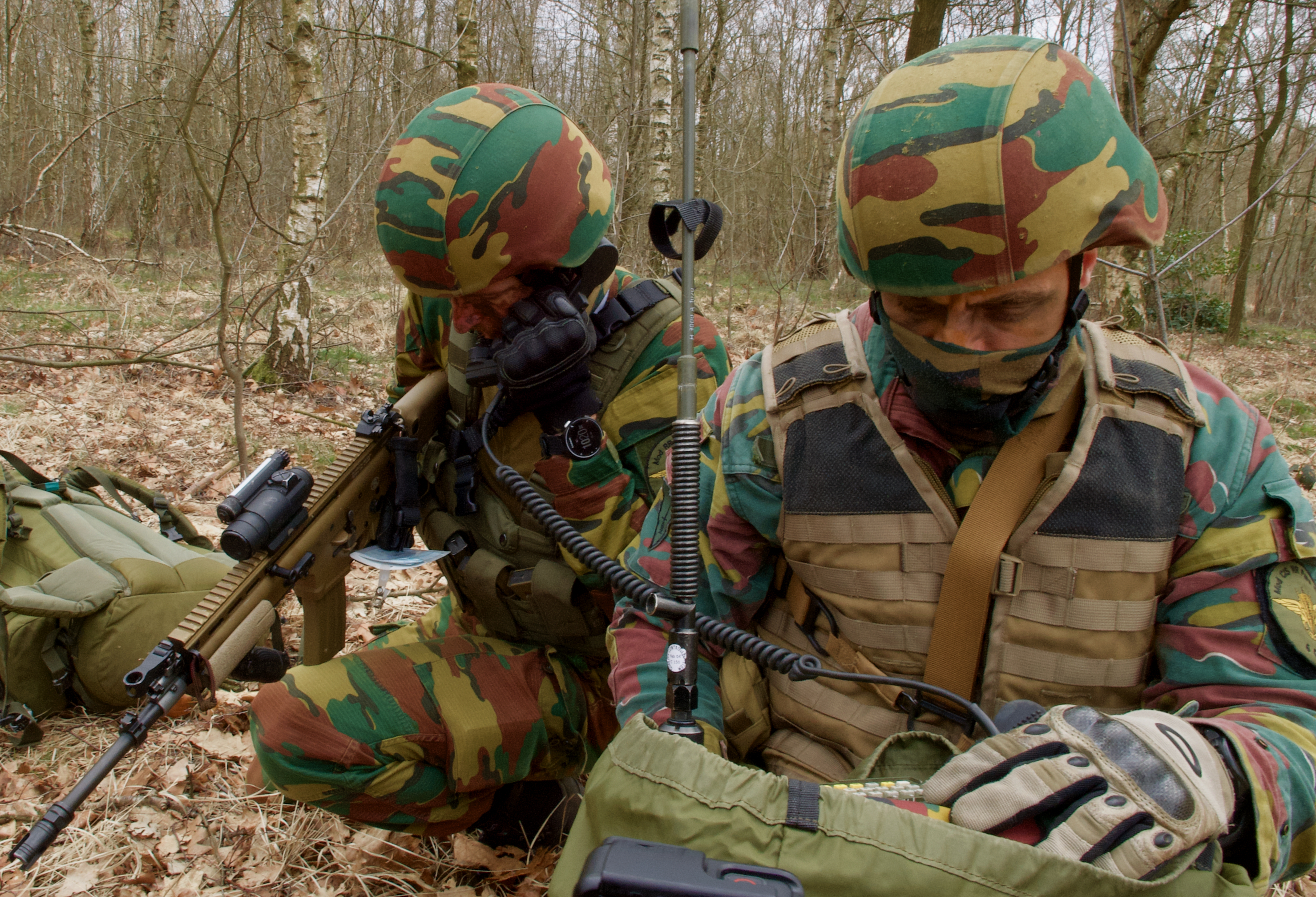 Special Operations Communicators 6 Gp CIS